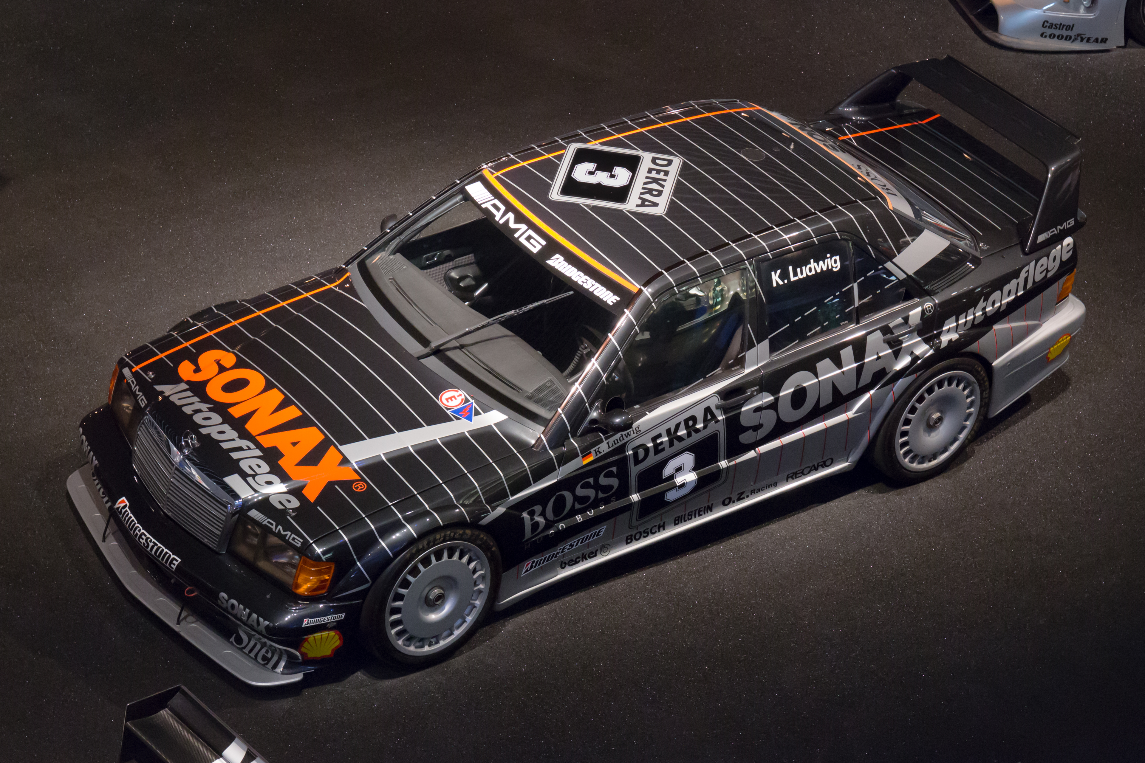 1992 AMG Mercedes 190E 2.5-16 Evolution II DTM; Klaus Ludwig's car